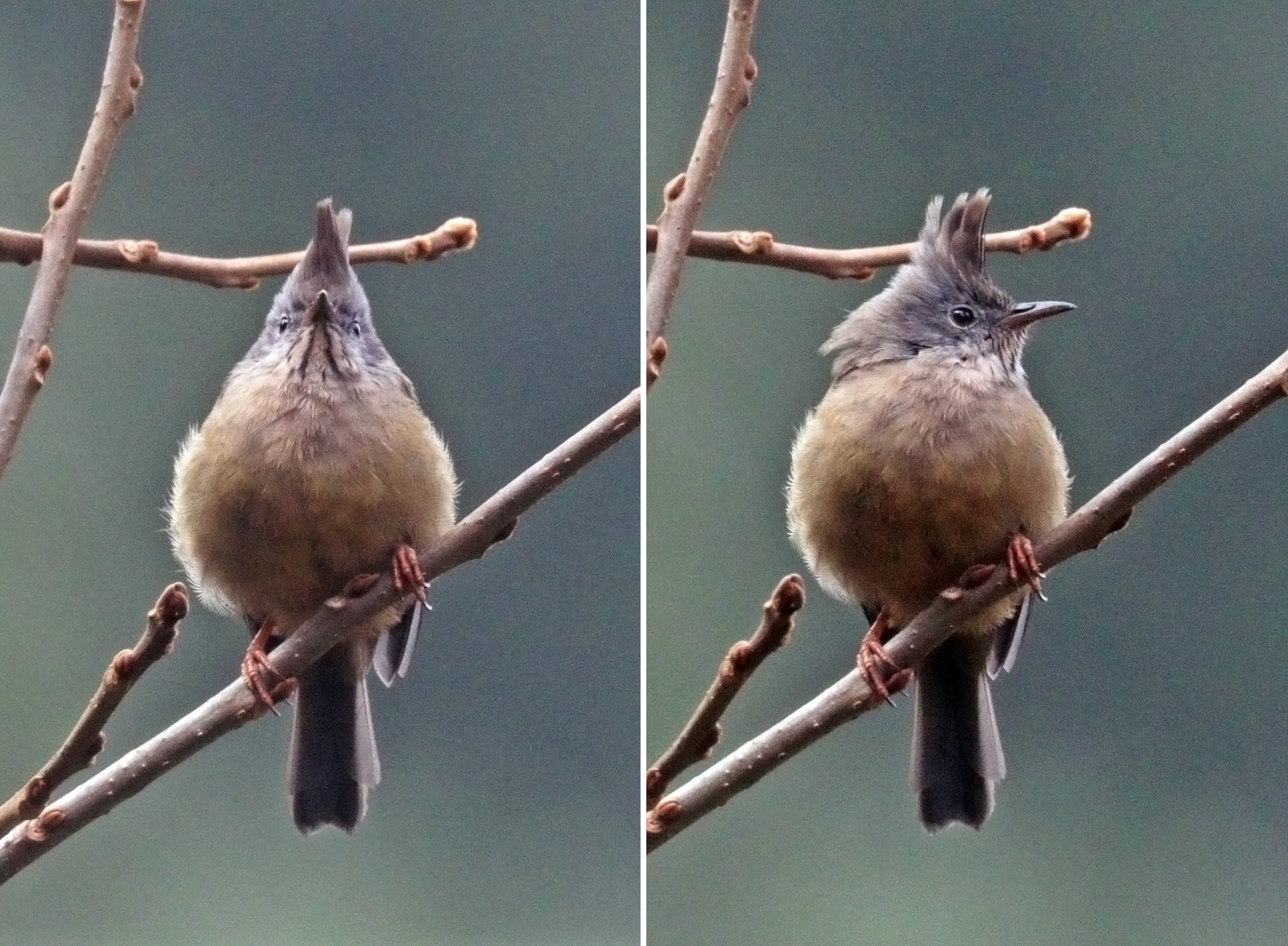 Stripe-throated yuhina (Yuhina gularis gularis) composite, Mount Phulchowki, Nepal